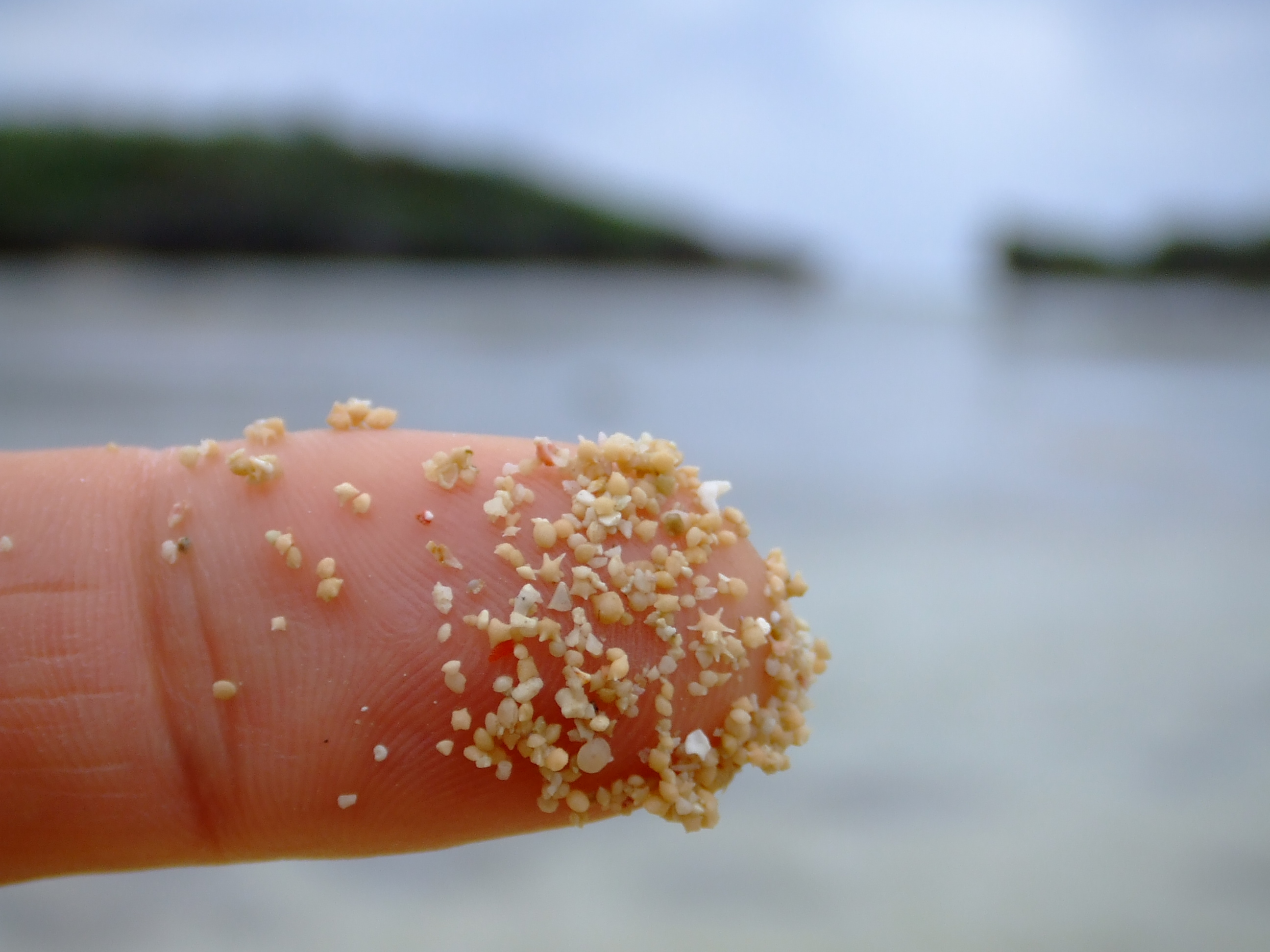 Star sand on Hoshizuna-no-hama, Iriomote, Okinawa. I took this photo with a digital camera on 4th April 2007.